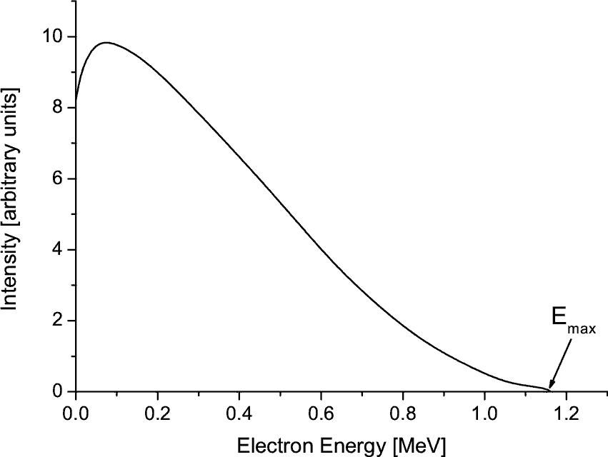 Beta spectrum of RaE